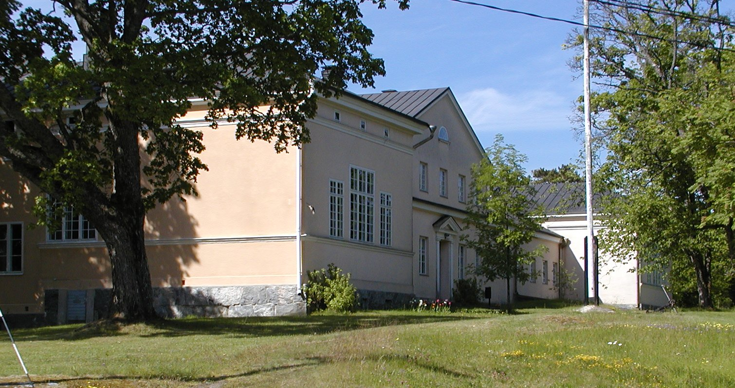 The University of Turku building on Själö island in Nagu, Finland